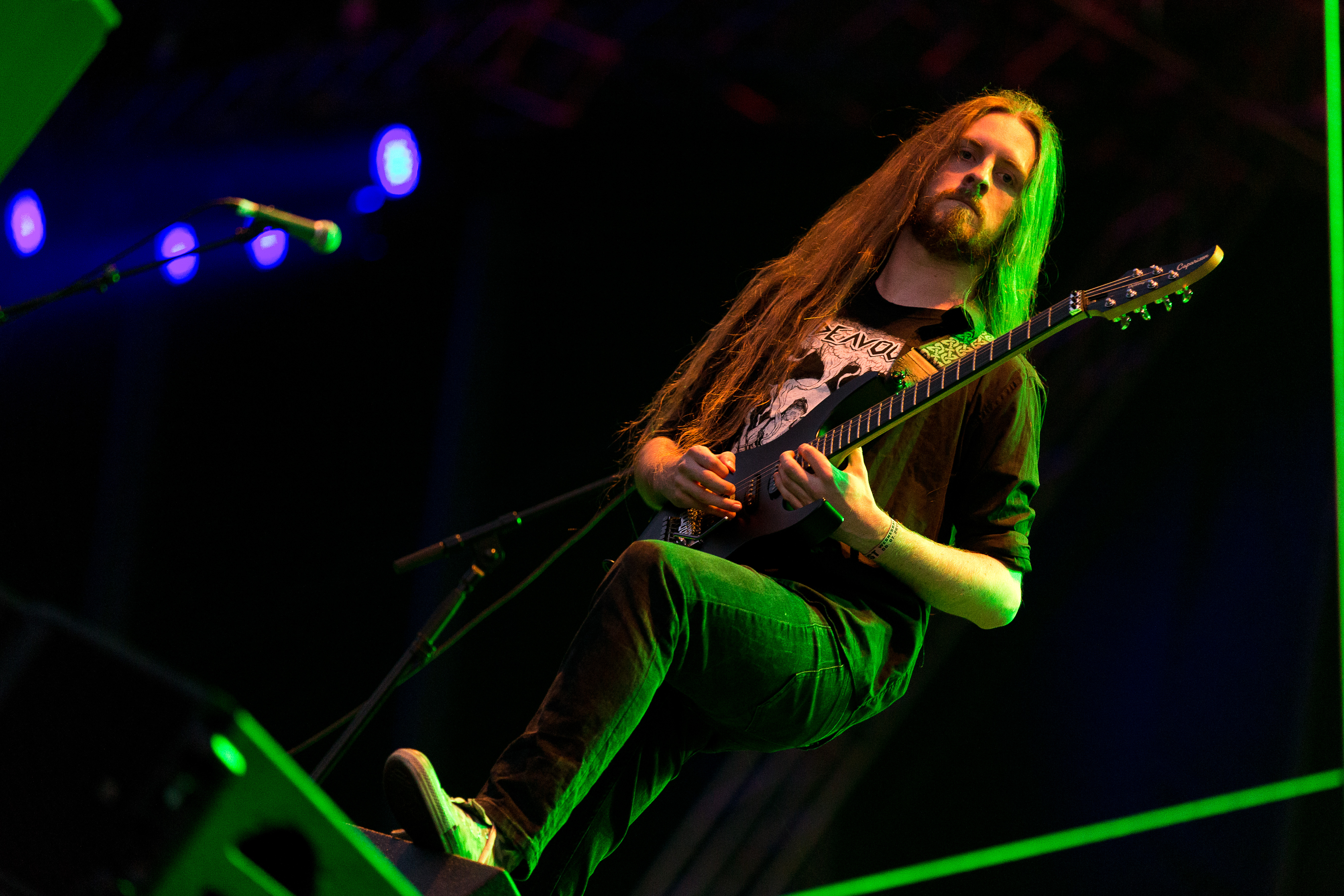 The British thrash metal band Onslaught at the Rockharz Open Air 2016 in Ballenstedt/Germany.